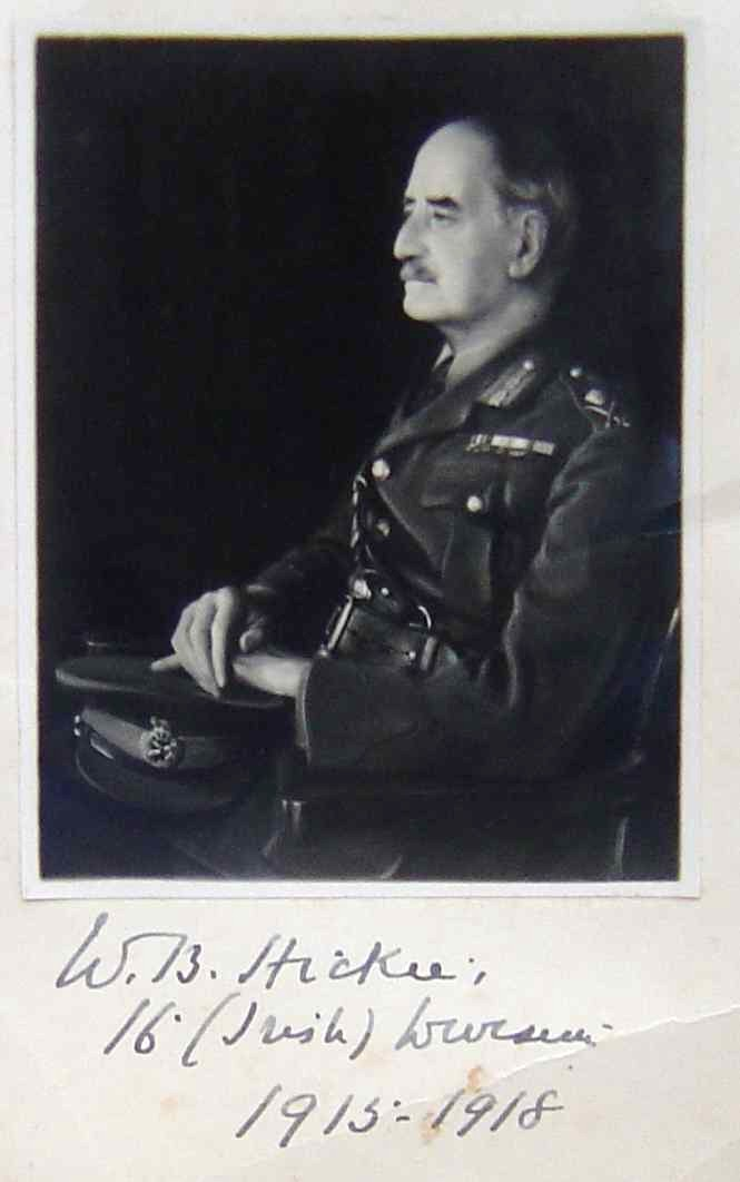 Sir William Bernard Hickie (21 May 1865 – 3 November 1950) was an Irish born Major General of the British Army and an Irish nationalist politician. He commanded the 16th (Irish) Division during the Great War 1915-18.